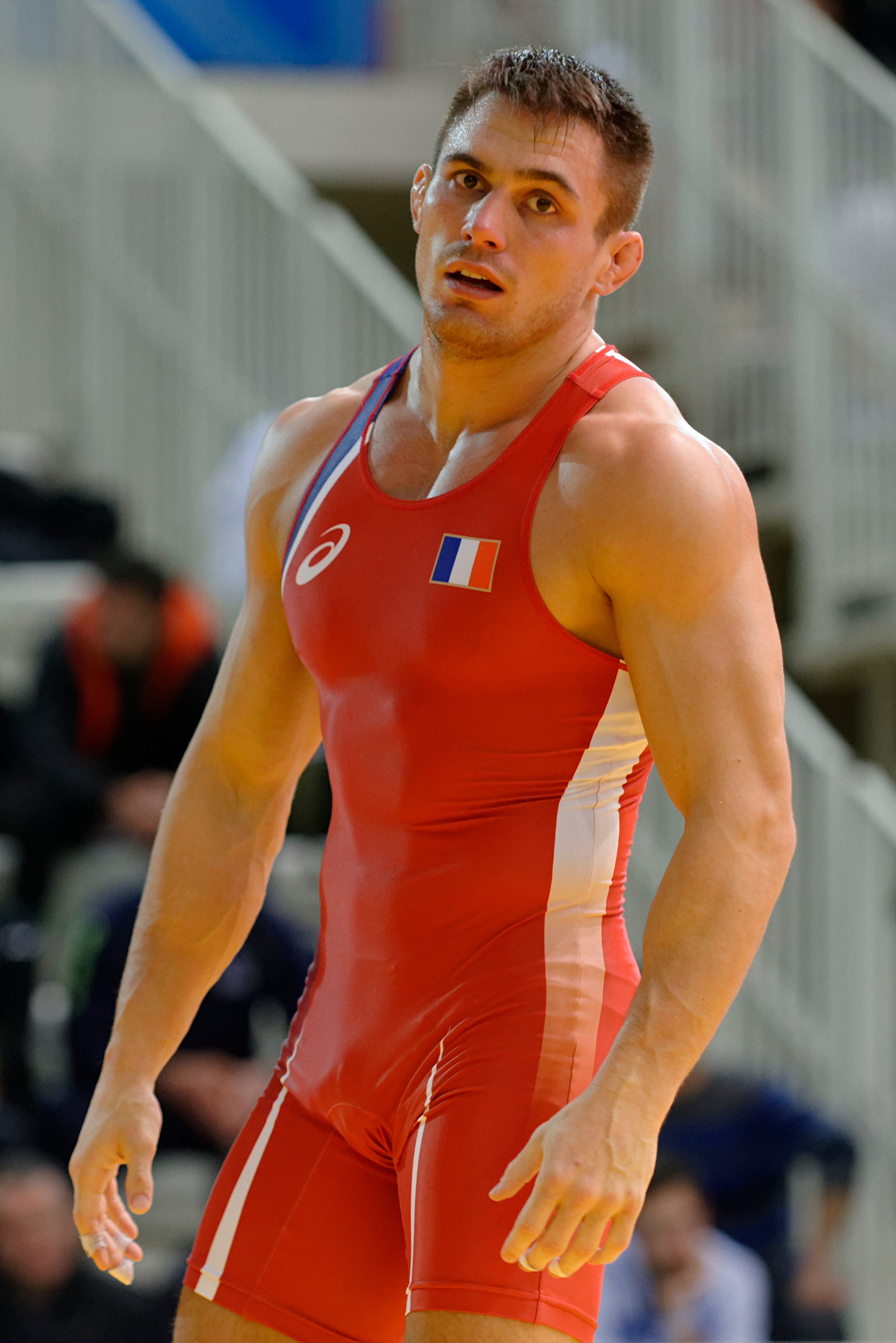 France's Steeve Guénot during his fight against Demeu Zhadrayev of Kazakhstan at the Golden Grand Prix of Paris.